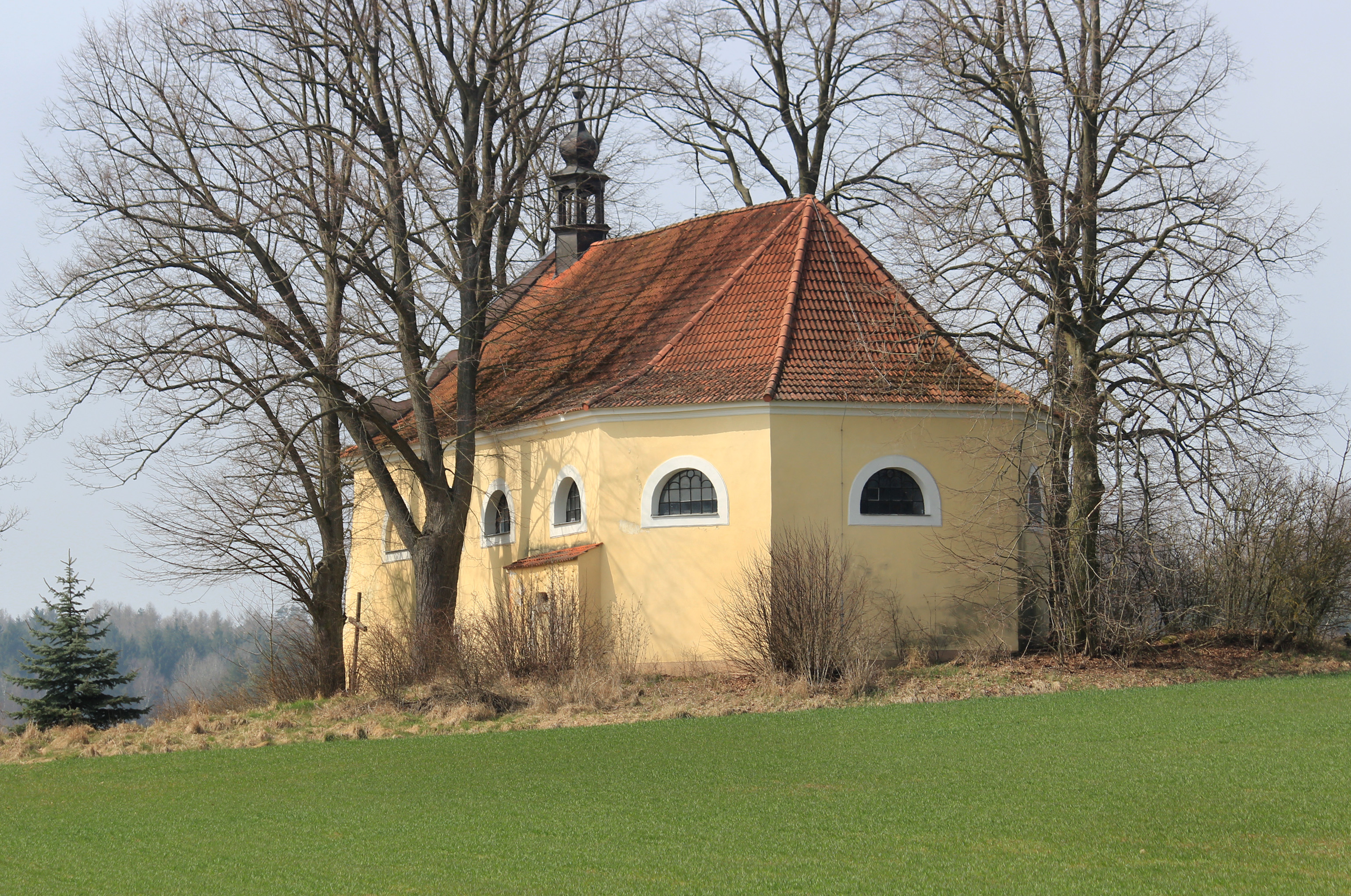 Church in Vidice village, Czech Republic.